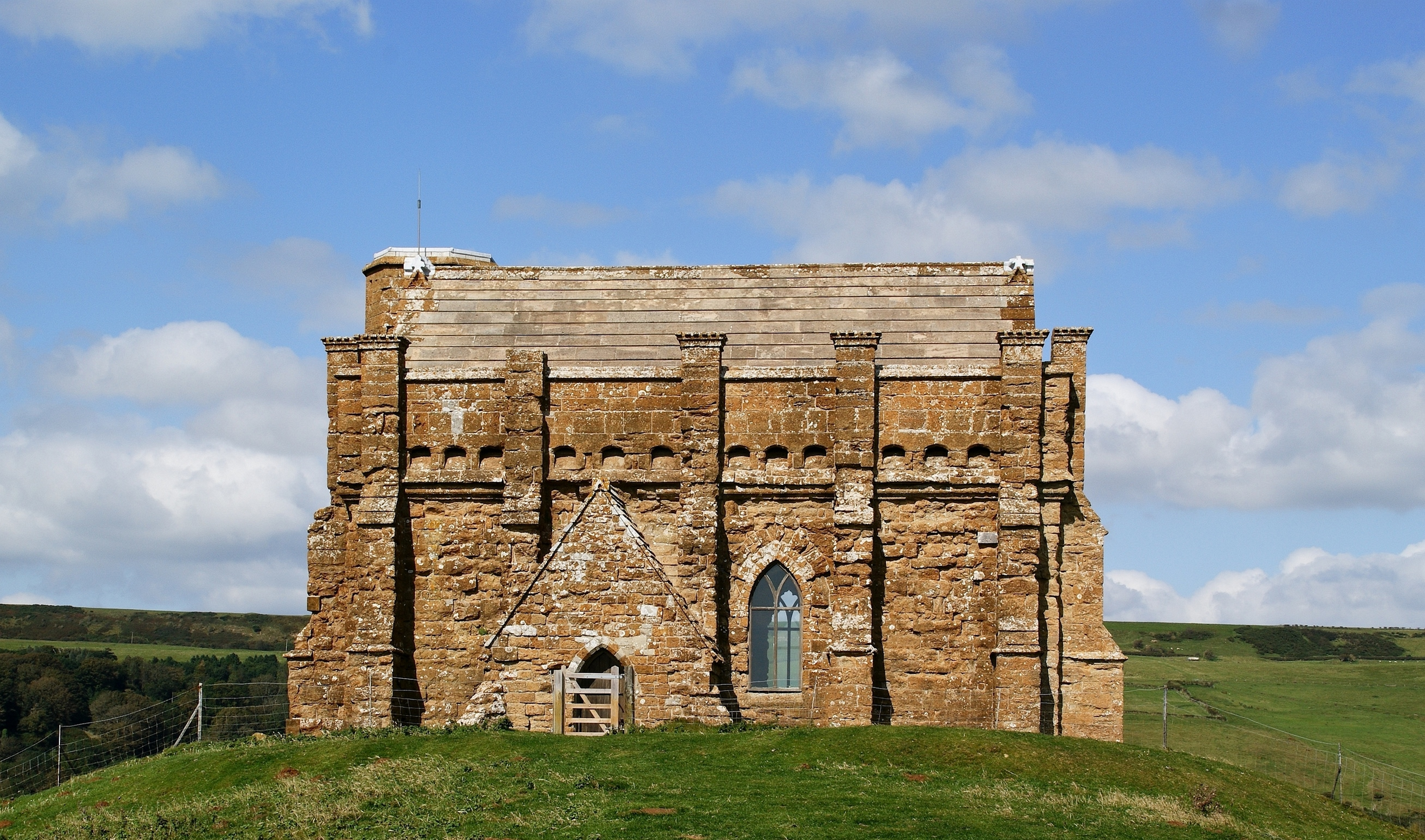 St Catherine's Chapel, Abbotsbury in Dorset, UK. It was probably built in the first half of the 15th century.